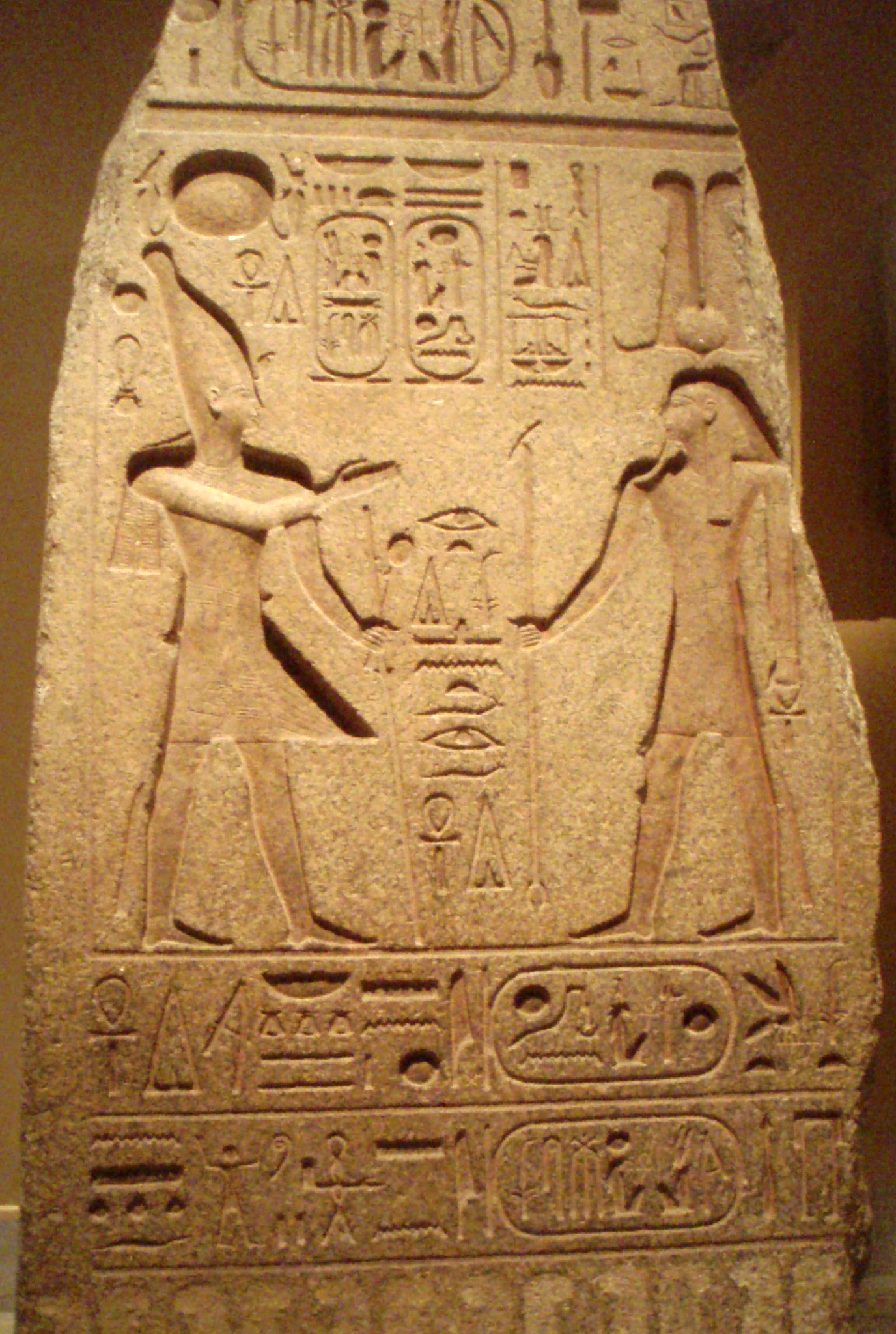 The lower part of a granite doorjamb from a temple of Ramessess II, from the 19th dynasty, circa 1279-1213 B.C.